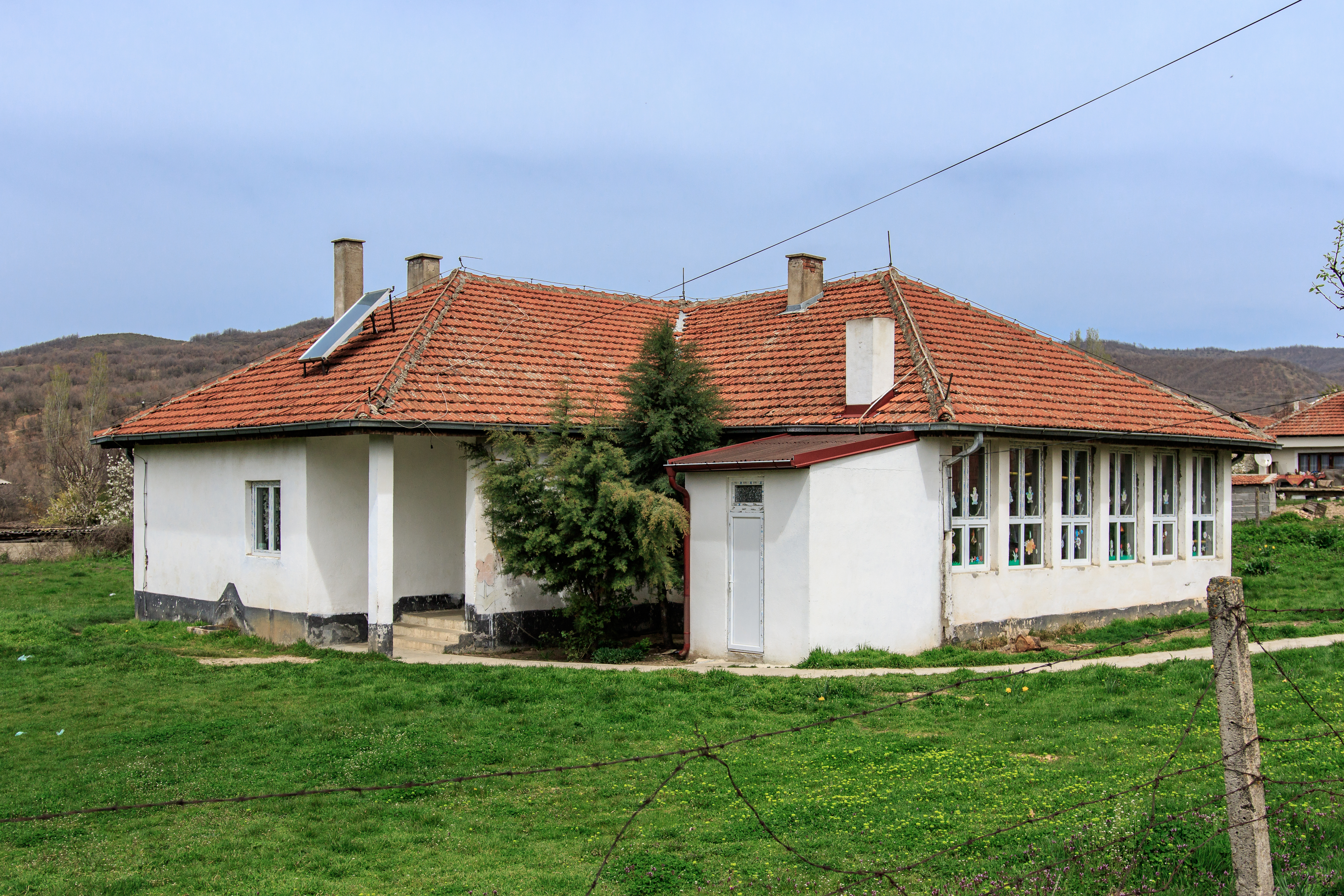 Primary school in the village Rakitec